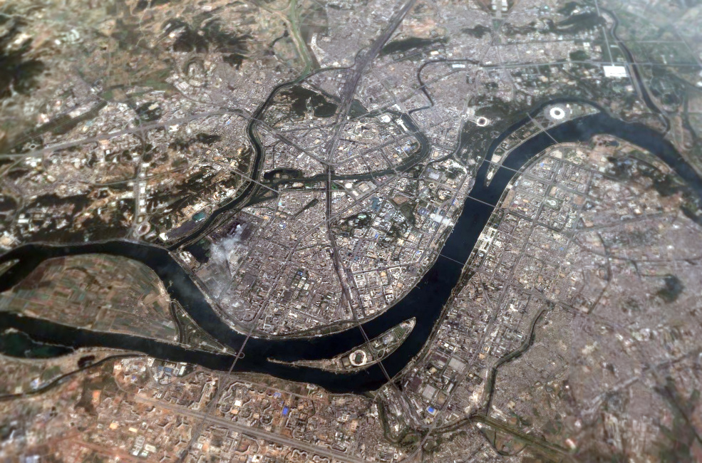 Pchjongjang from satelite.